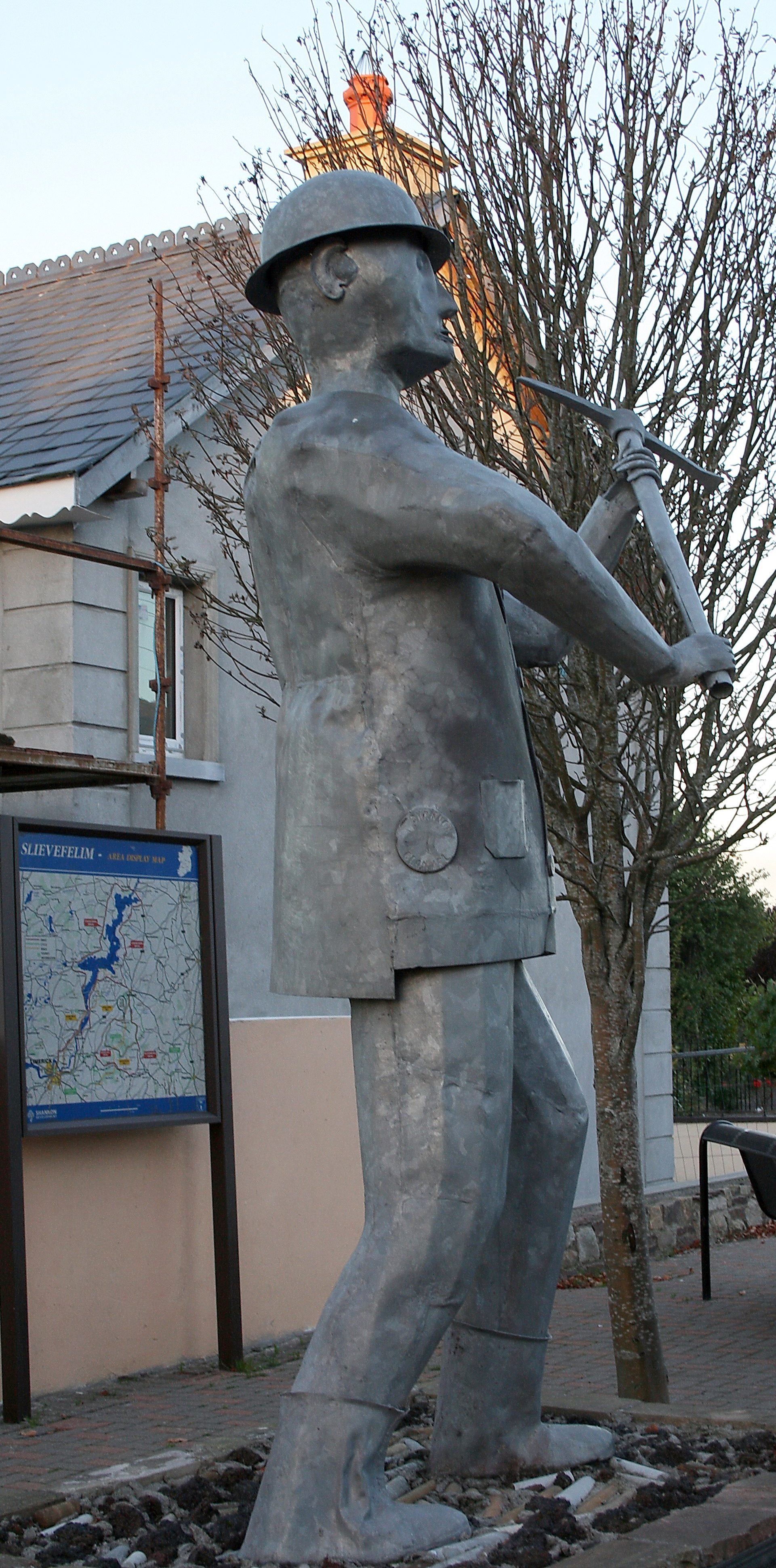 A miner in Silvermines village, County Tipperary